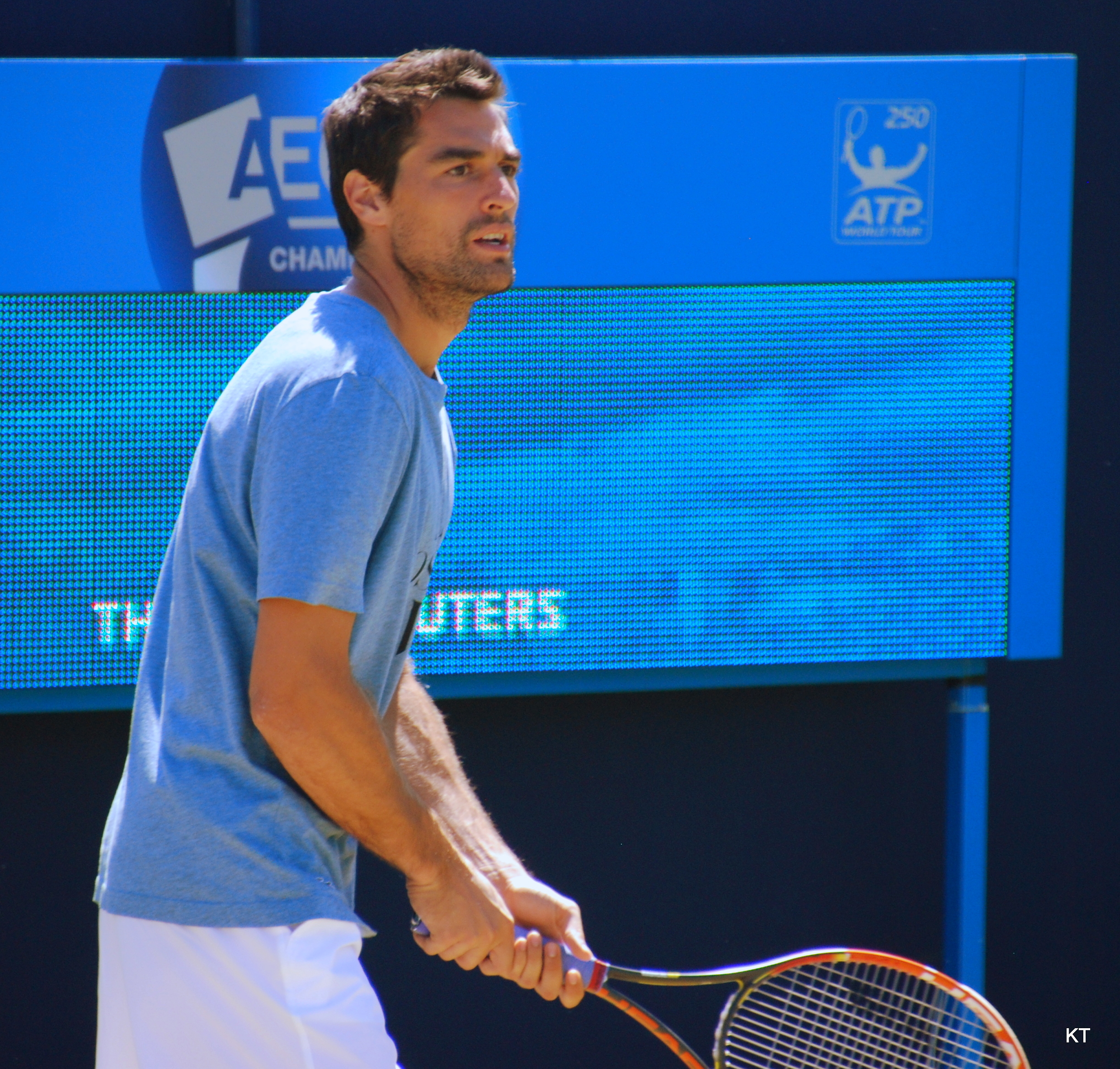 Jeremy Chardy